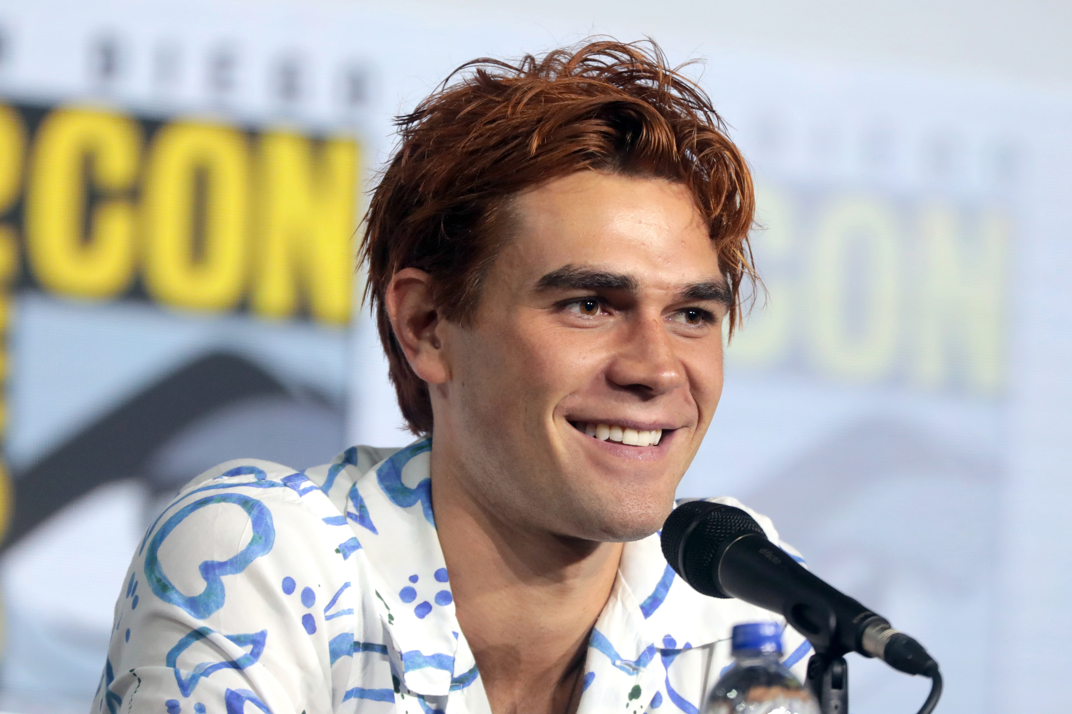 KJ Apa speaking at the 2019 San Diego Comic Con International, for "Riverdale", at the San Diego Convention Center in San Diego, California.